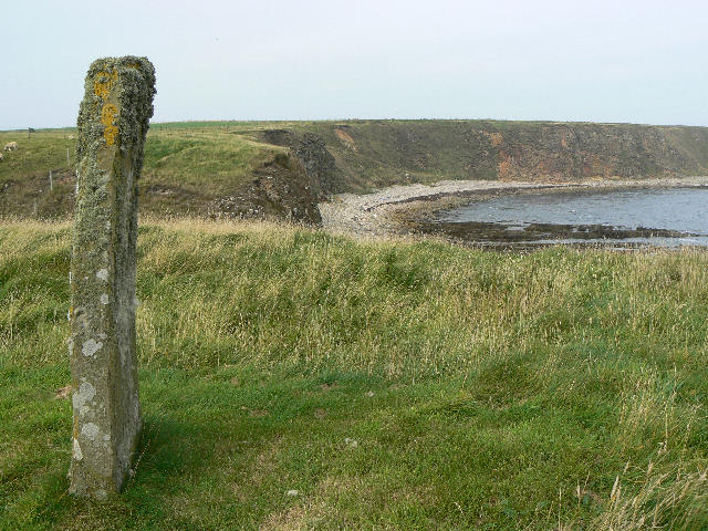 Standing Stone at Stembister. There's a single standing stone at HY541024, within the garden of a farmhouse. It's pictured here with Clivie Bay in the background.